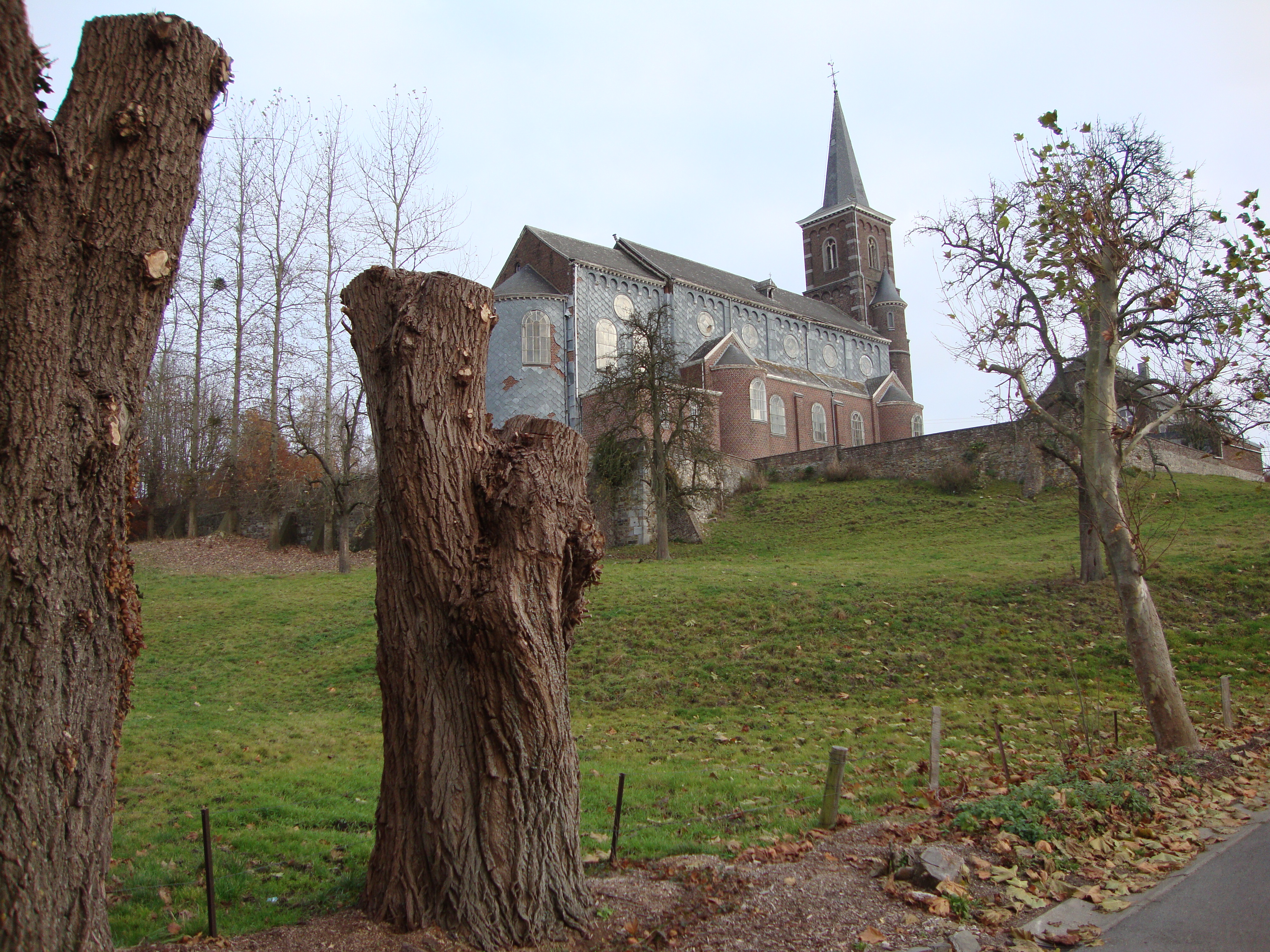 Saint-John's church in Saint-Jean-Sart (Aubel, Belgium)